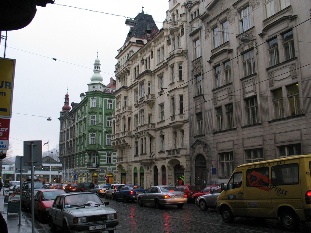 The typical street of Nove Meste and moderate traffic on it.